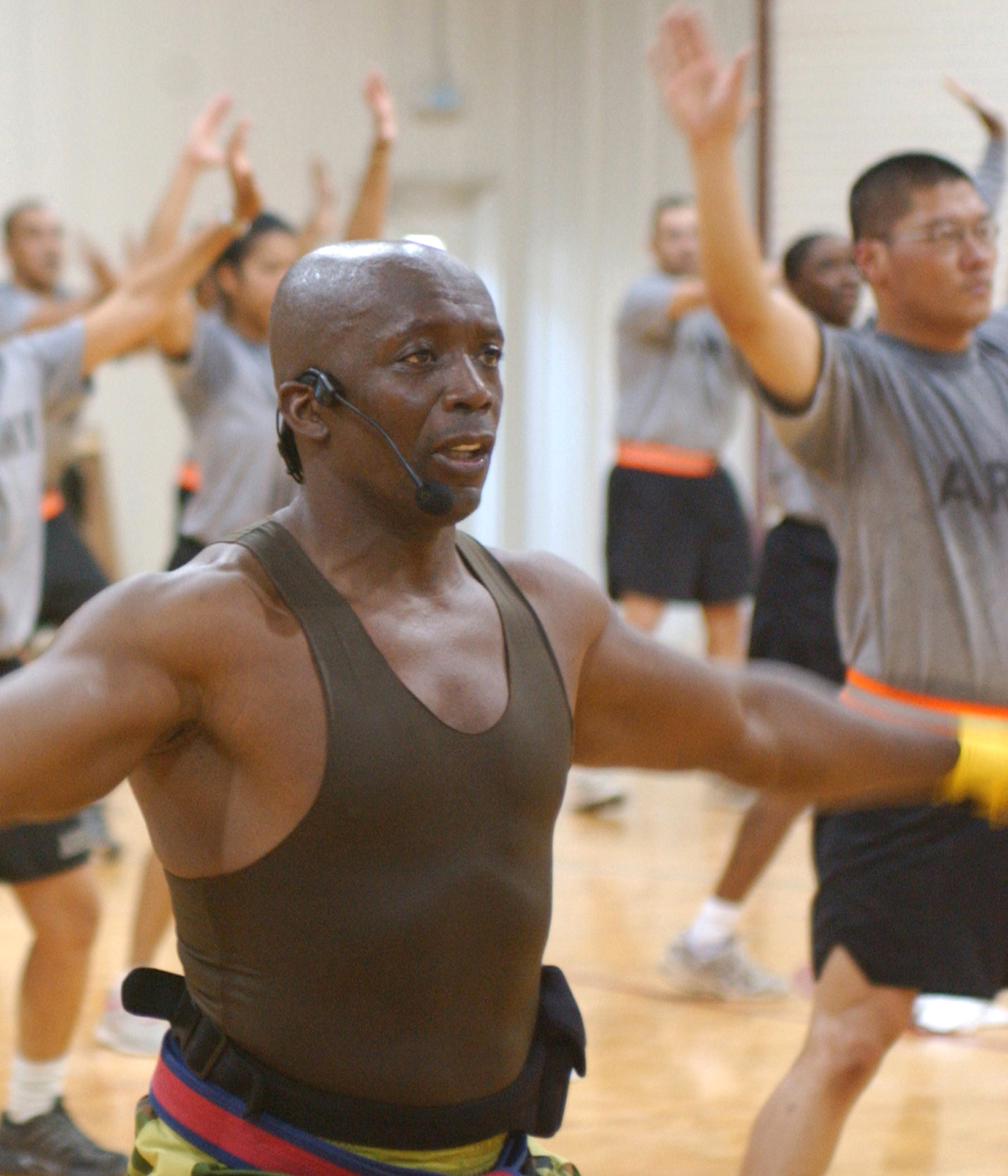 Billy Blanks – martial artist, fitness guru, actor and creator of the Tae Bo – leads Multi-National Division – Baghdad Soldiers in a 45-minute exercise session at the 4th Infantry Division Field House October 5, 2006.